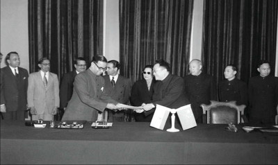 Zhang Hanfu (Front, R), then vice minister of the Ministry of Foreign Affairs of China, and Nedyam Raghavan, then Indian ambassador to China, exchange credentials before signing the agreement on Trade and Intercourse between India and Tibet in Beijing on April 29, 1954.